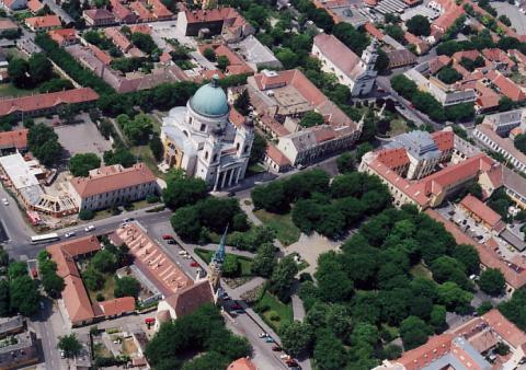 Temples- Cegléd, Hungary